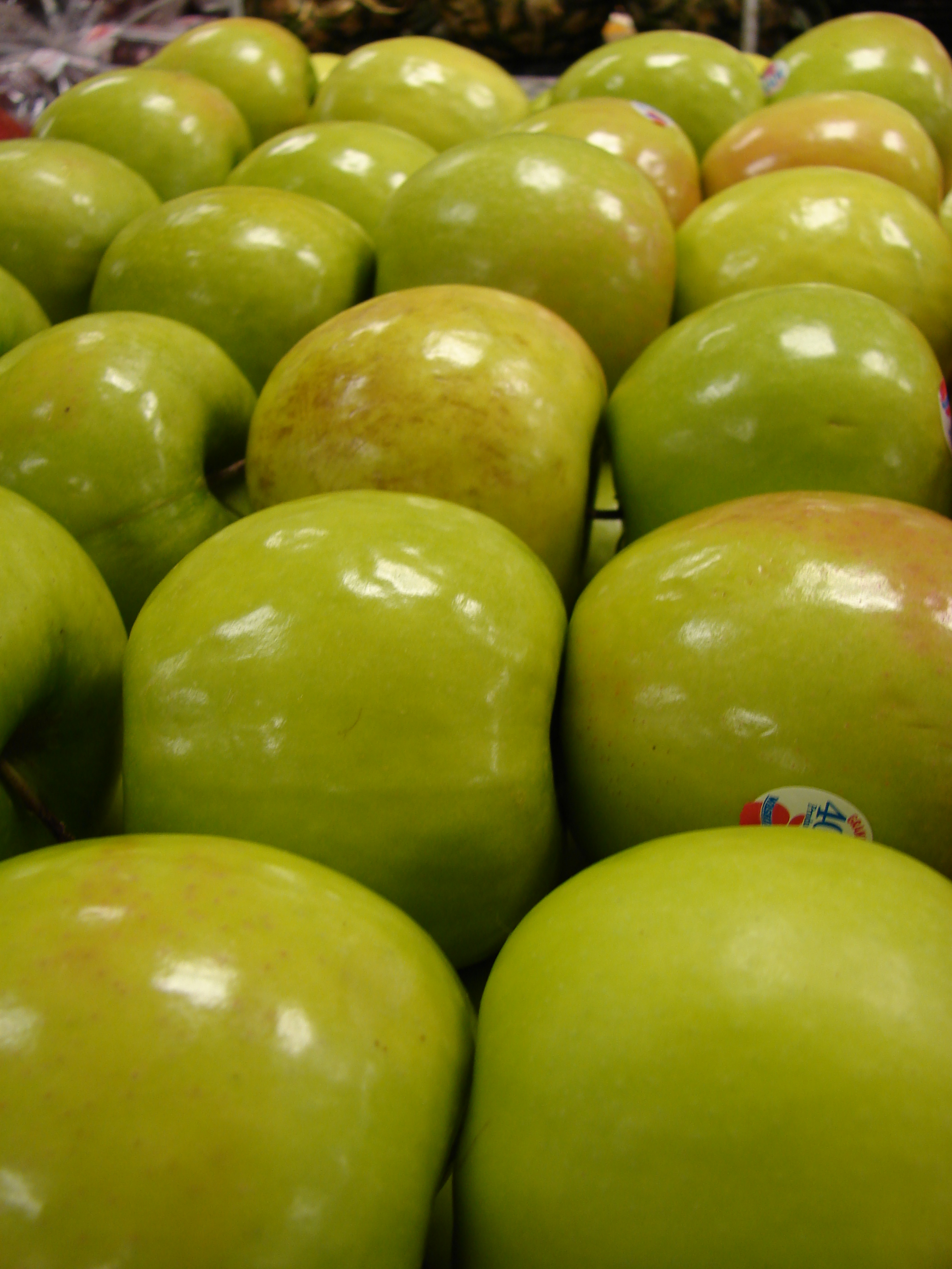 Malus pumila (fruit Granny Smith variety). Location: Maui, Foodland Pukalani